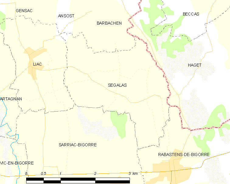 Map of French municipality